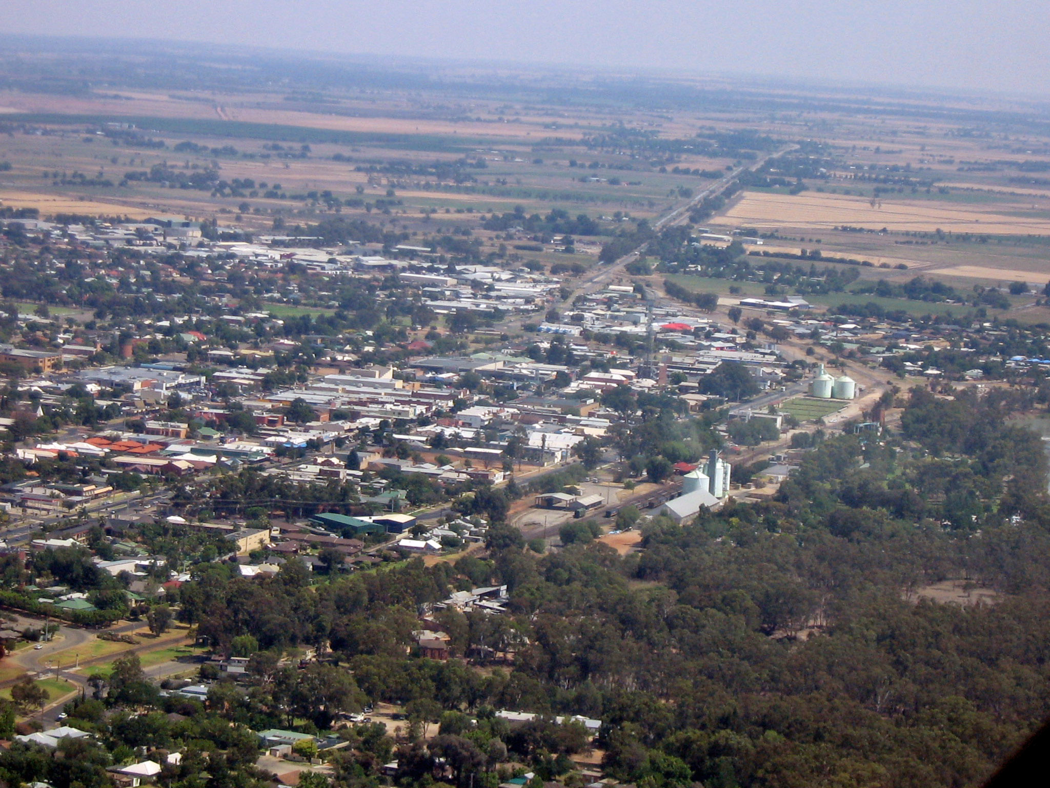 Swan Hill, Victoria from the air, looking west